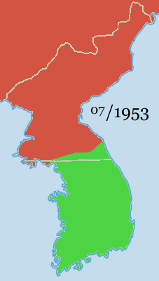 Map of Korean war in July 1953, showing: North Korean, Chinese and communist forces (red) South Korean, US and United Nations forces (green).